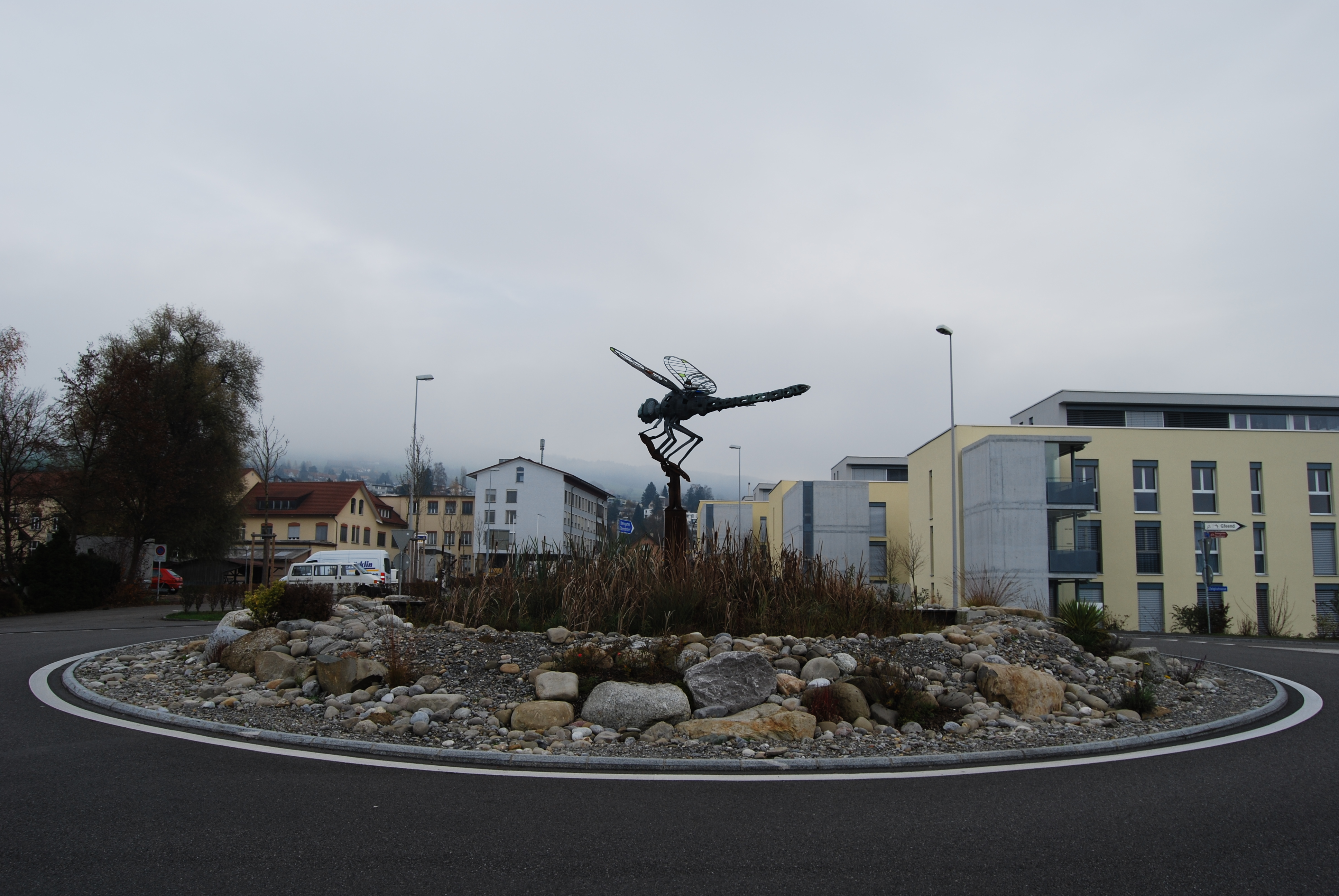 Traffic circle at Niederrohrdorf, canton of Aargau, SwitzerlandEsperanto: Trafikcirklo en Niederrohrdorf, Kantono Argovio, Svislando